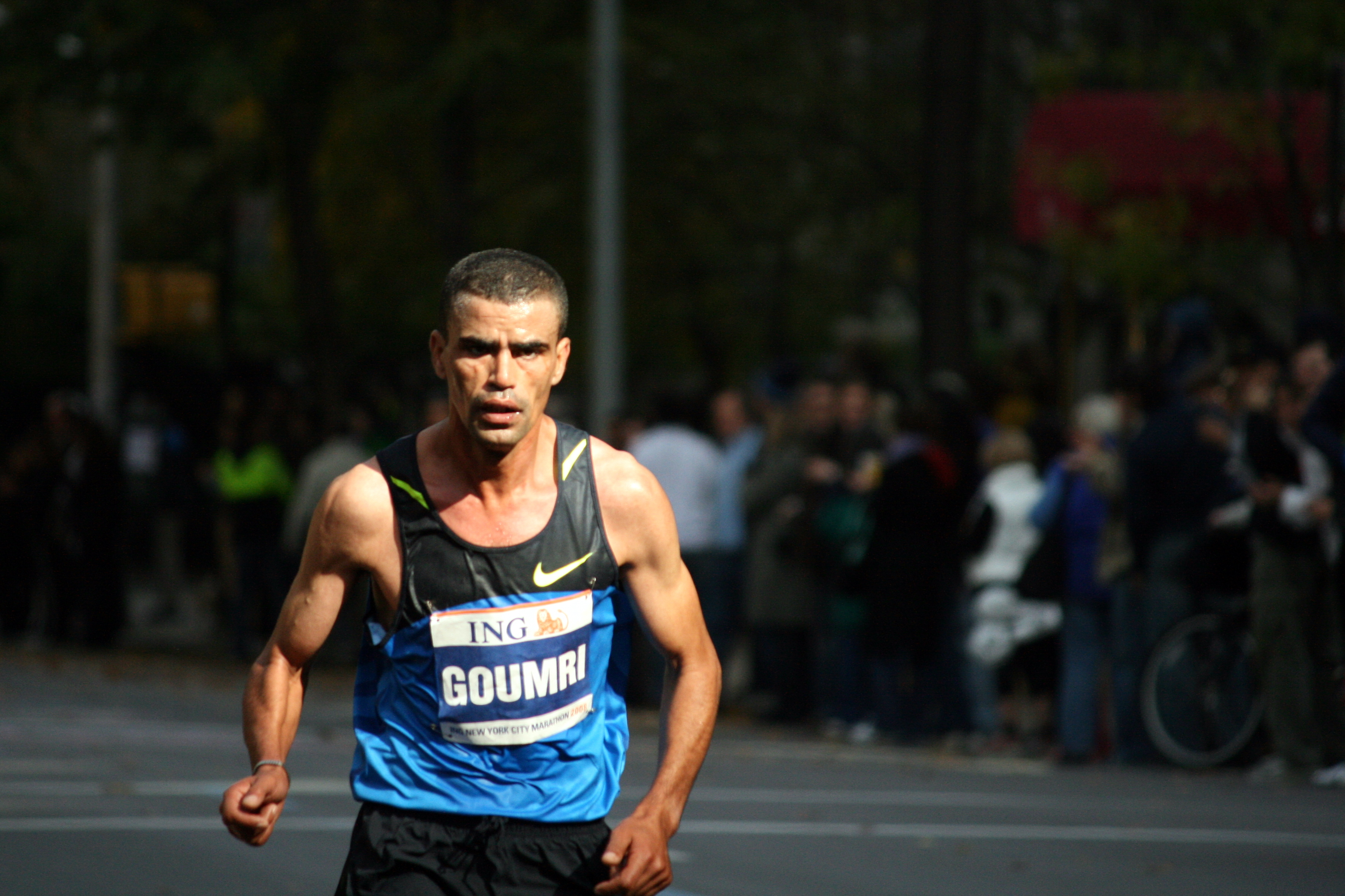 Abderrahim Goumri, towards the end of the race. He finished with a time of 2:09:07.